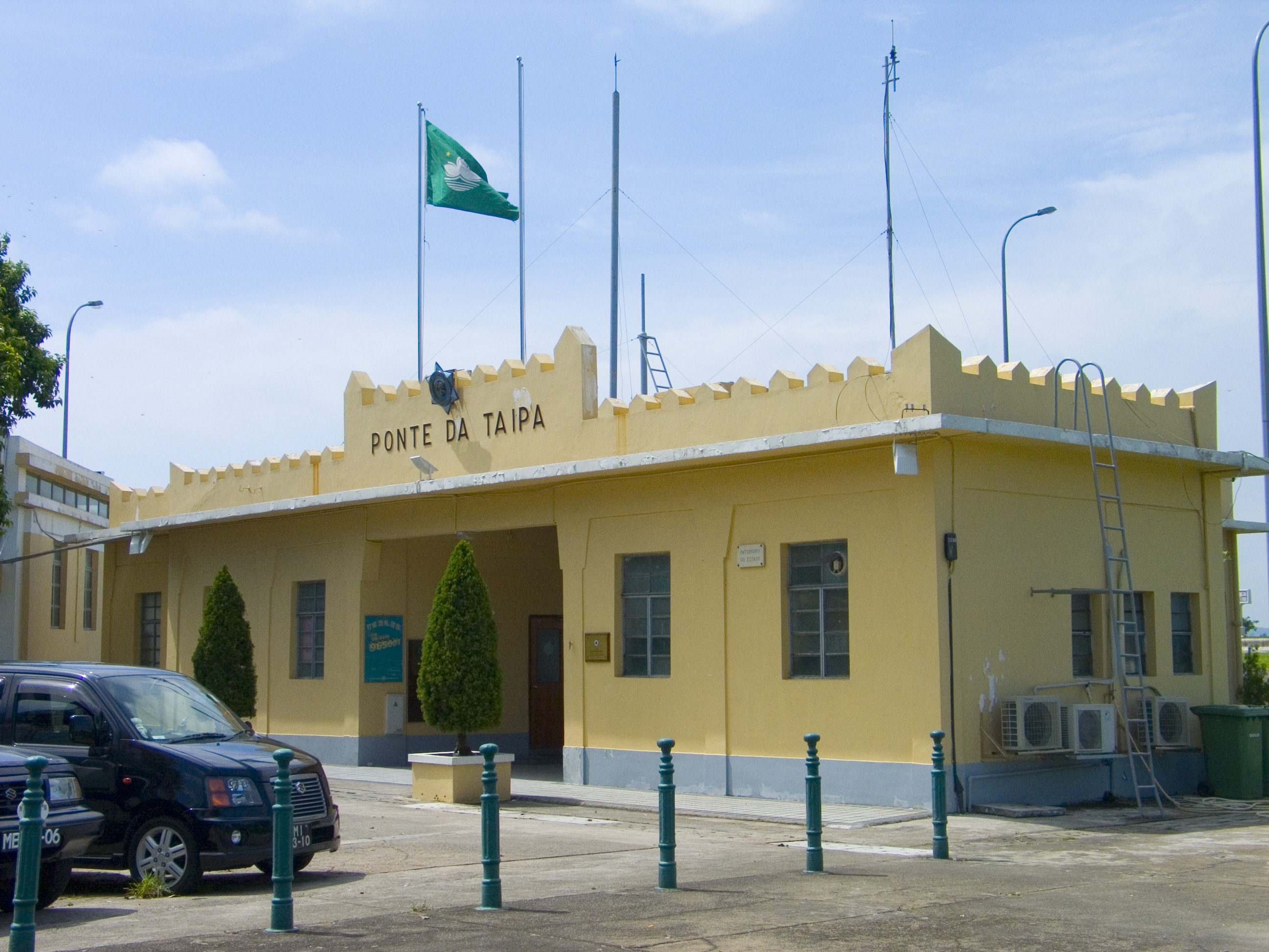 Ponte da Taipa, next to Quay Garden, Taipa, Macao taken by Glio